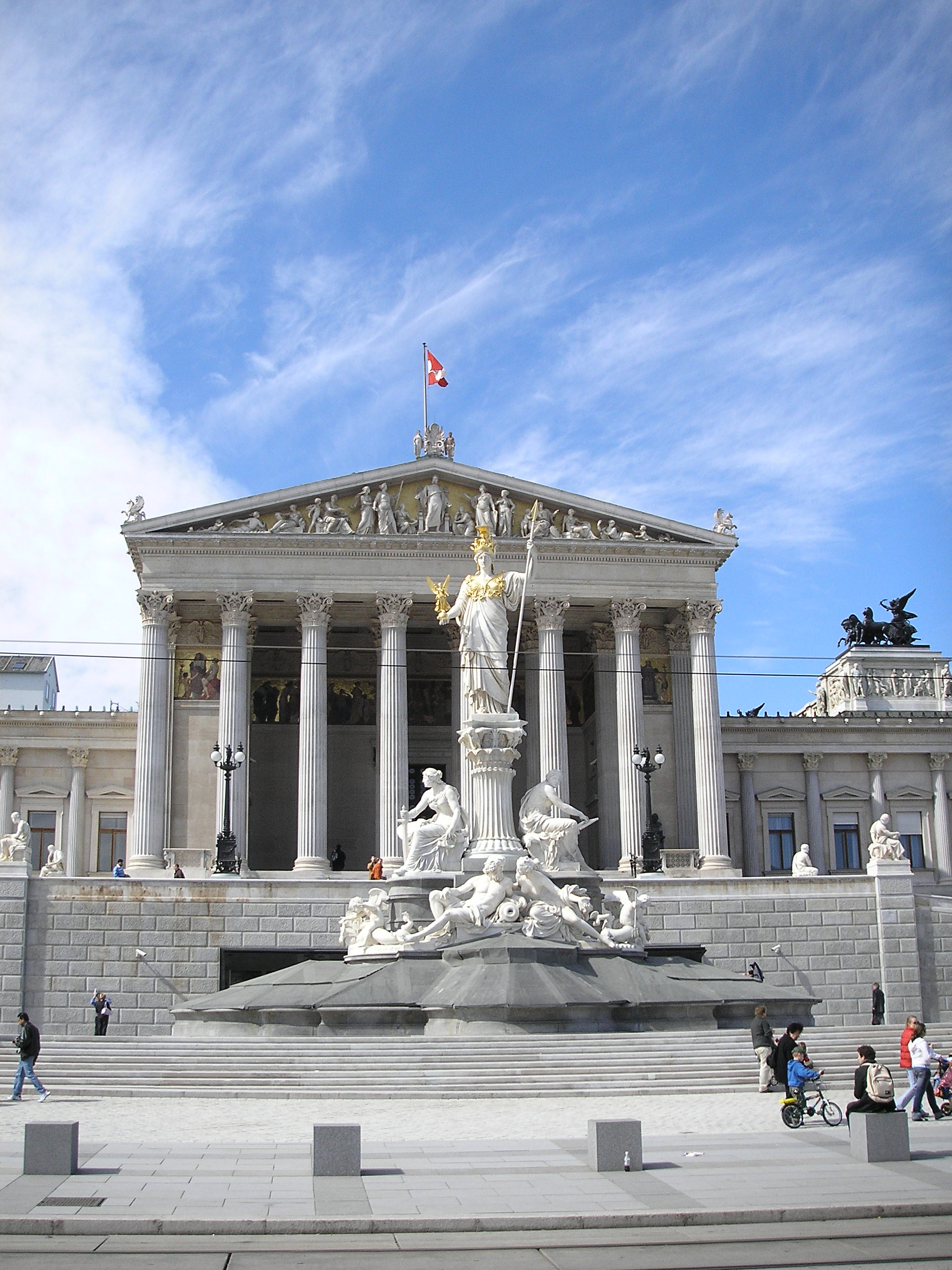 Facade of the Austrian Parliament Building, Vienna, Austria